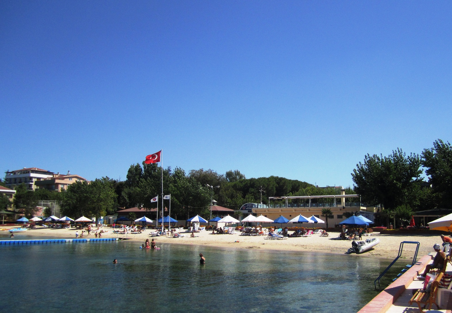 Beach at Bayramoglu (Darıca)